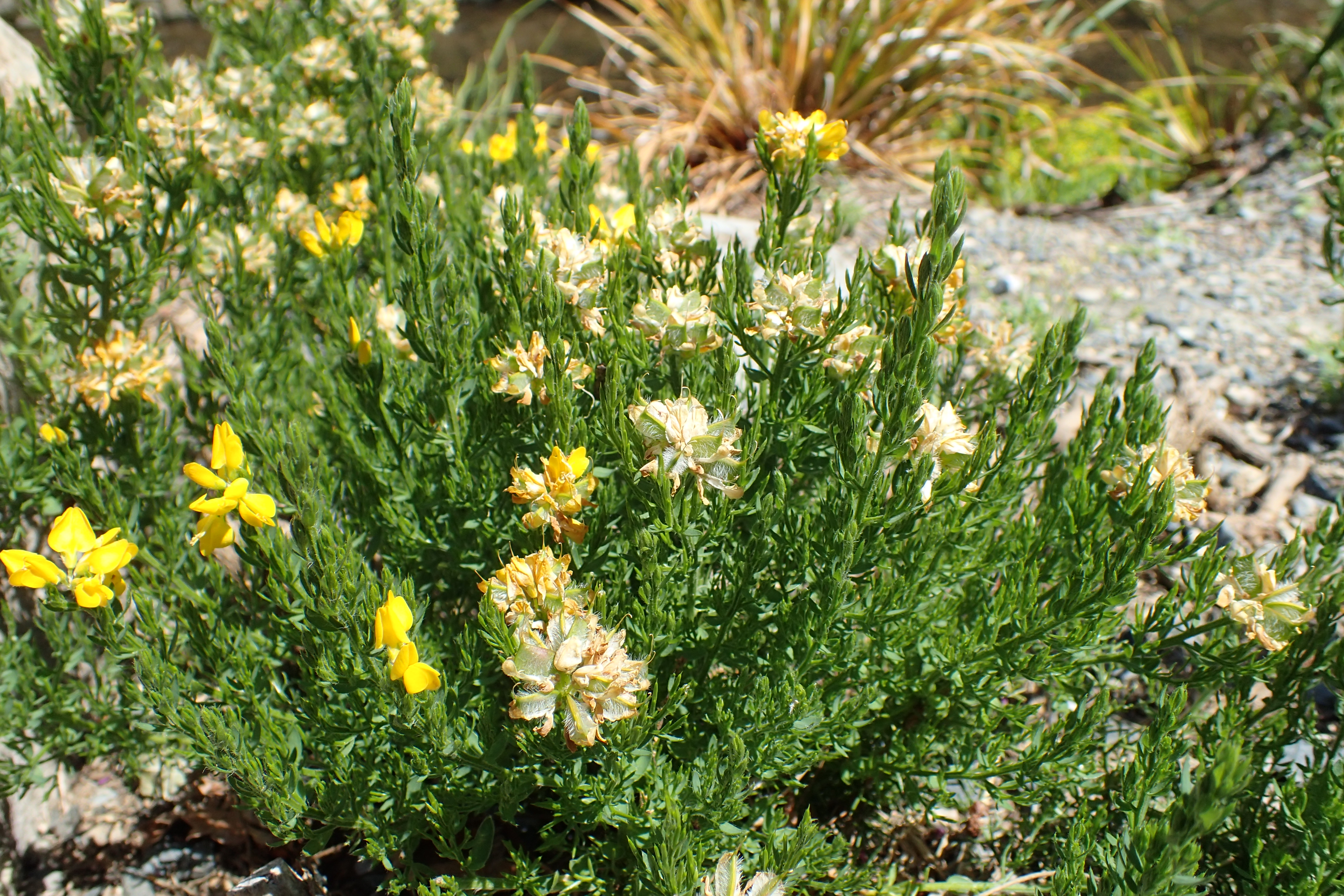 Genista hispanica in Dunedin Botanic Garden